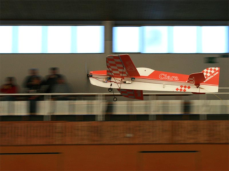 Shock flyer Hoellein Ciara fly by, Ihringshausen, Germany, 2008-02-10